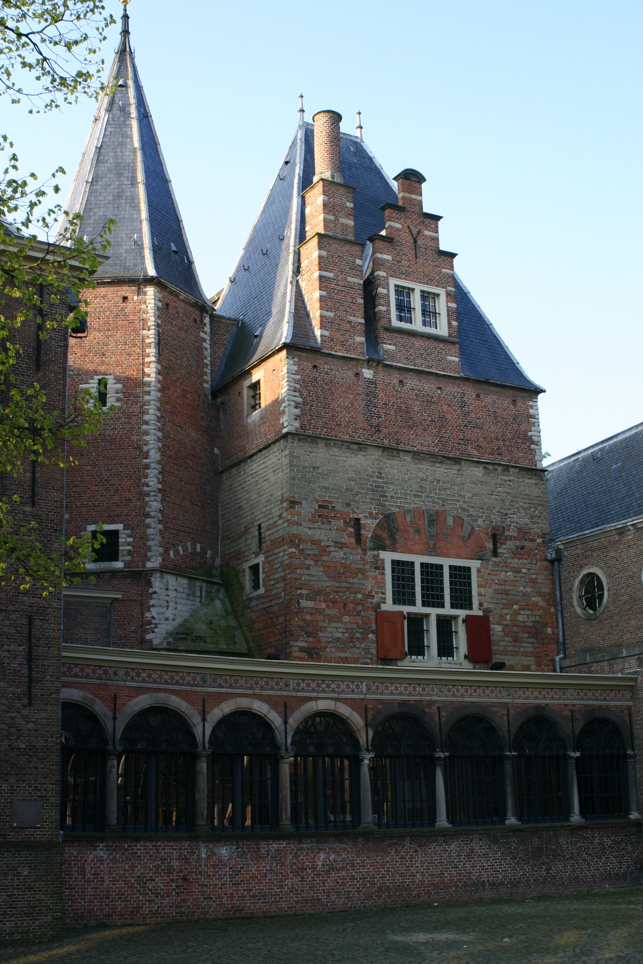 The Gravensteen (literally: caste of the count) a former prison in the city of Leiden